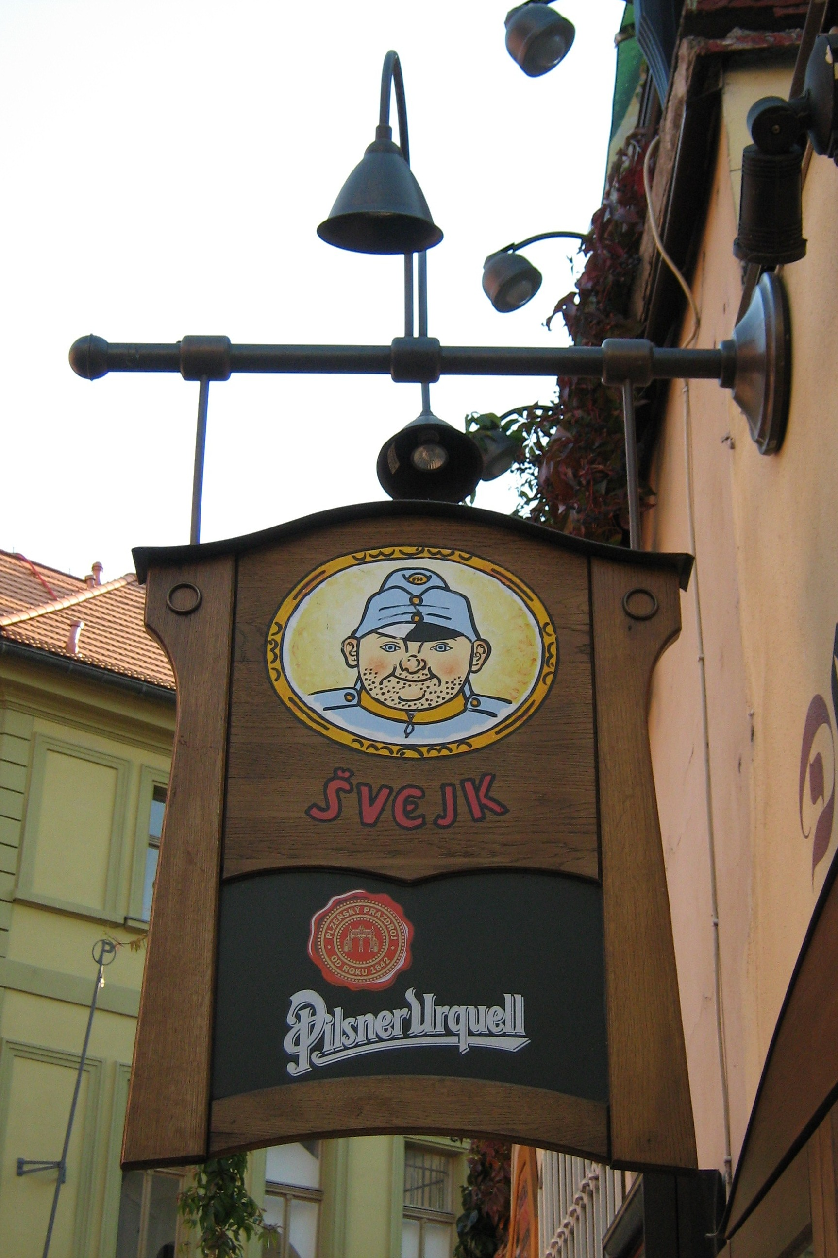 Sign in front of the restaurant 'Svejk' in PragueJosef. September 2010.Švejk Restaurant U zeleného stromu Restaurace a pohostinství Betlémské náměstí 351/6 110 00 Praha, Staré Město Praha